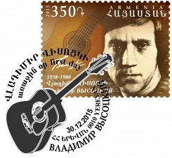 Stamp of Armenia, Vladimir Vysotsky, 2015.